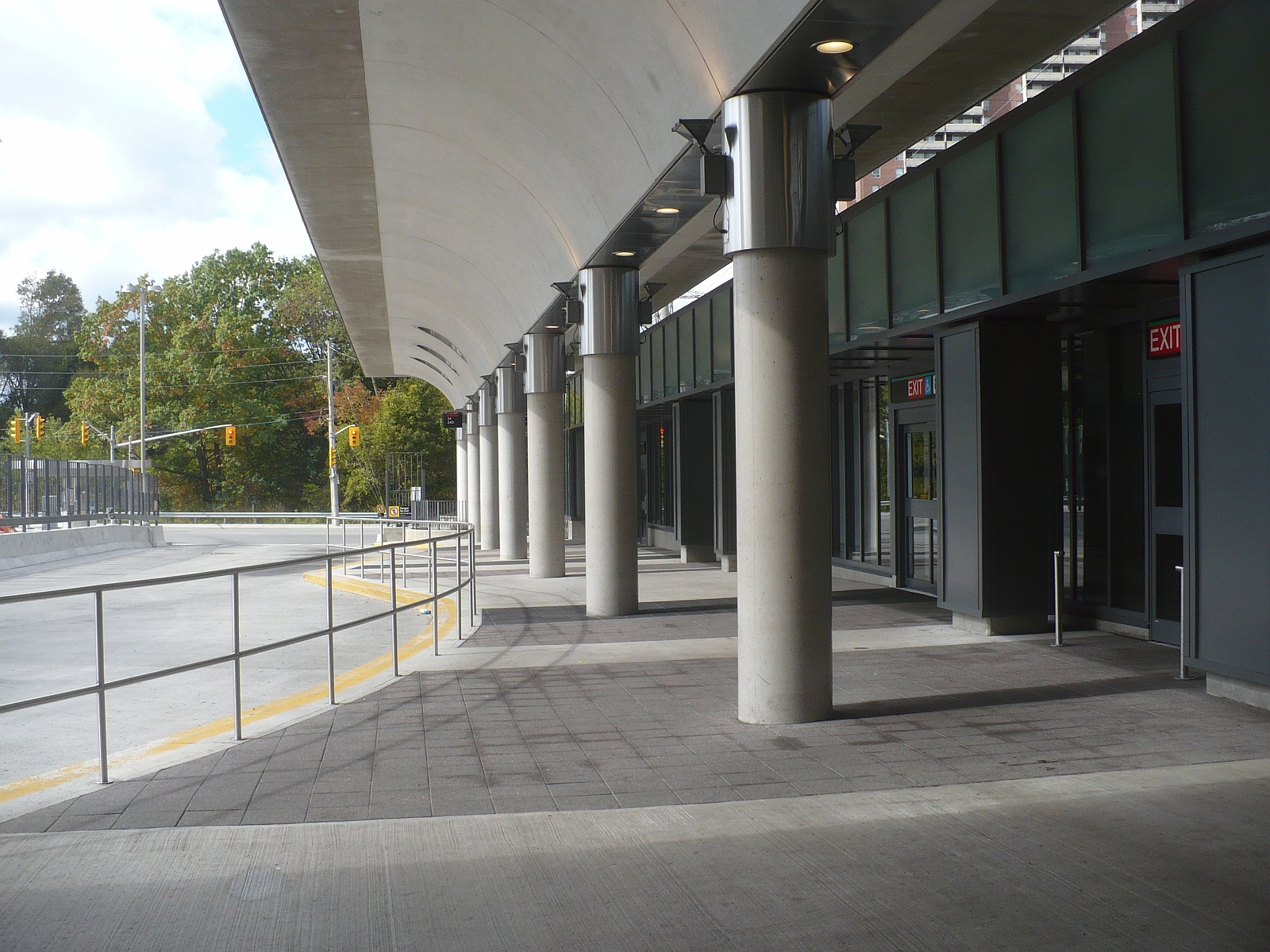 New bus bay 6 at Victoria Park subway station in Toronto